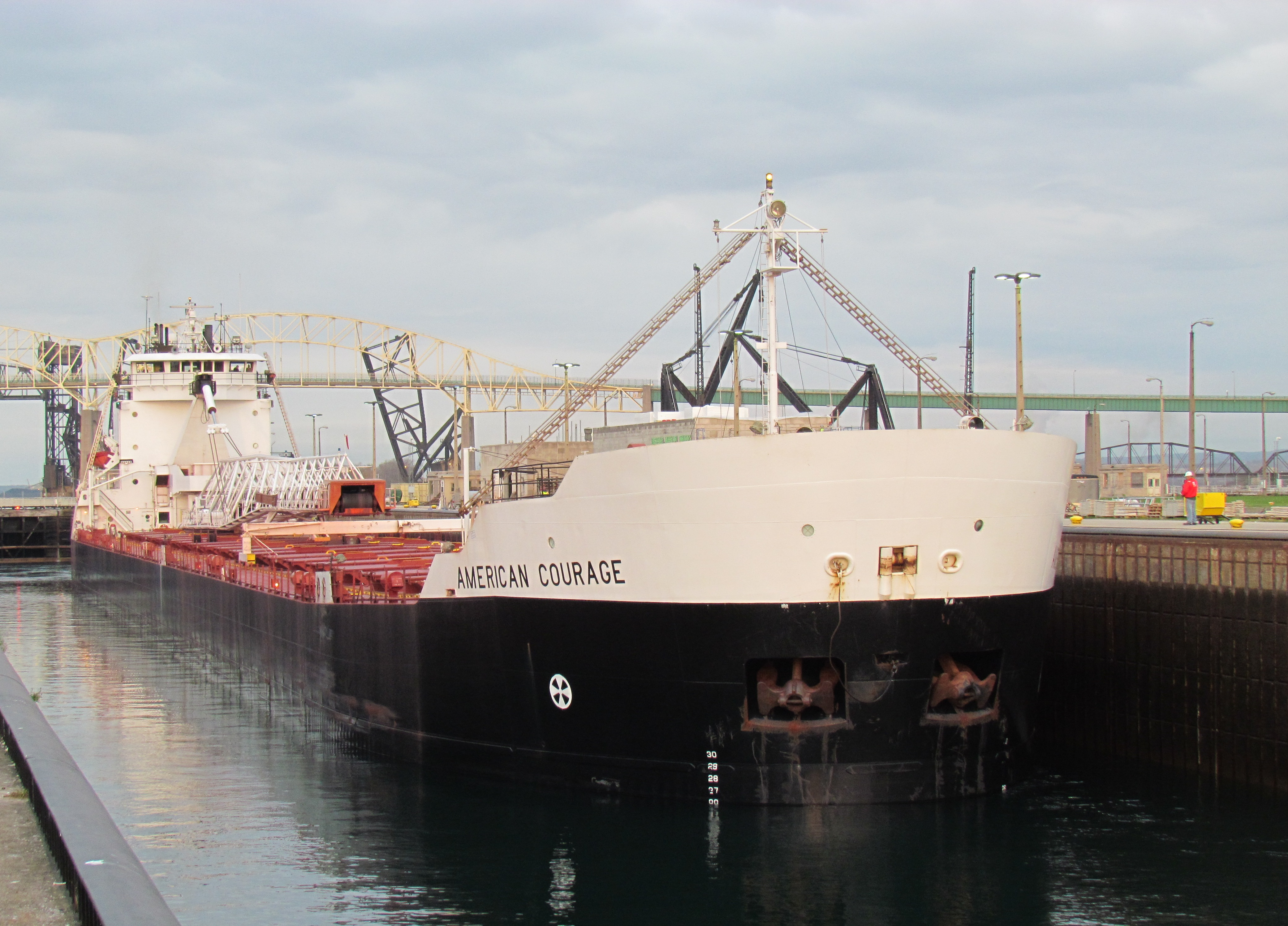 Carrying 24,062 tons of iron ore bound for Cleveland, the 636 foot-long American Courage being lowered in the Poe Lock on October 18, 2013.